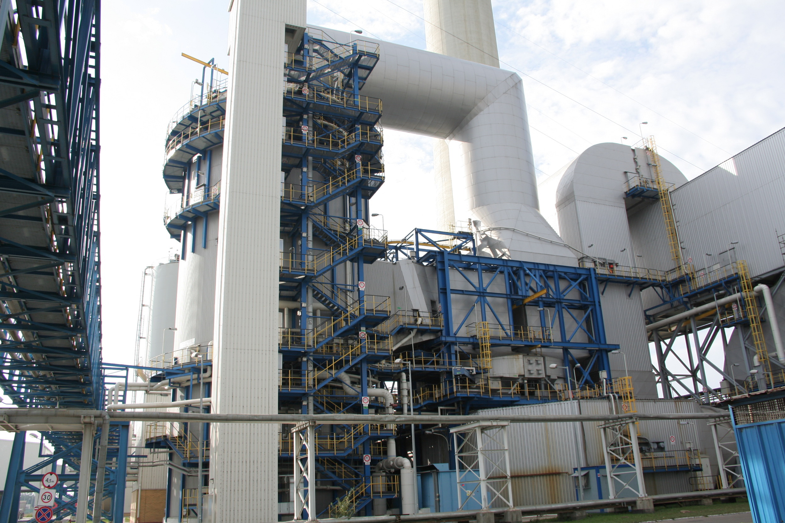 Dolna Odra Power Plant, Poland